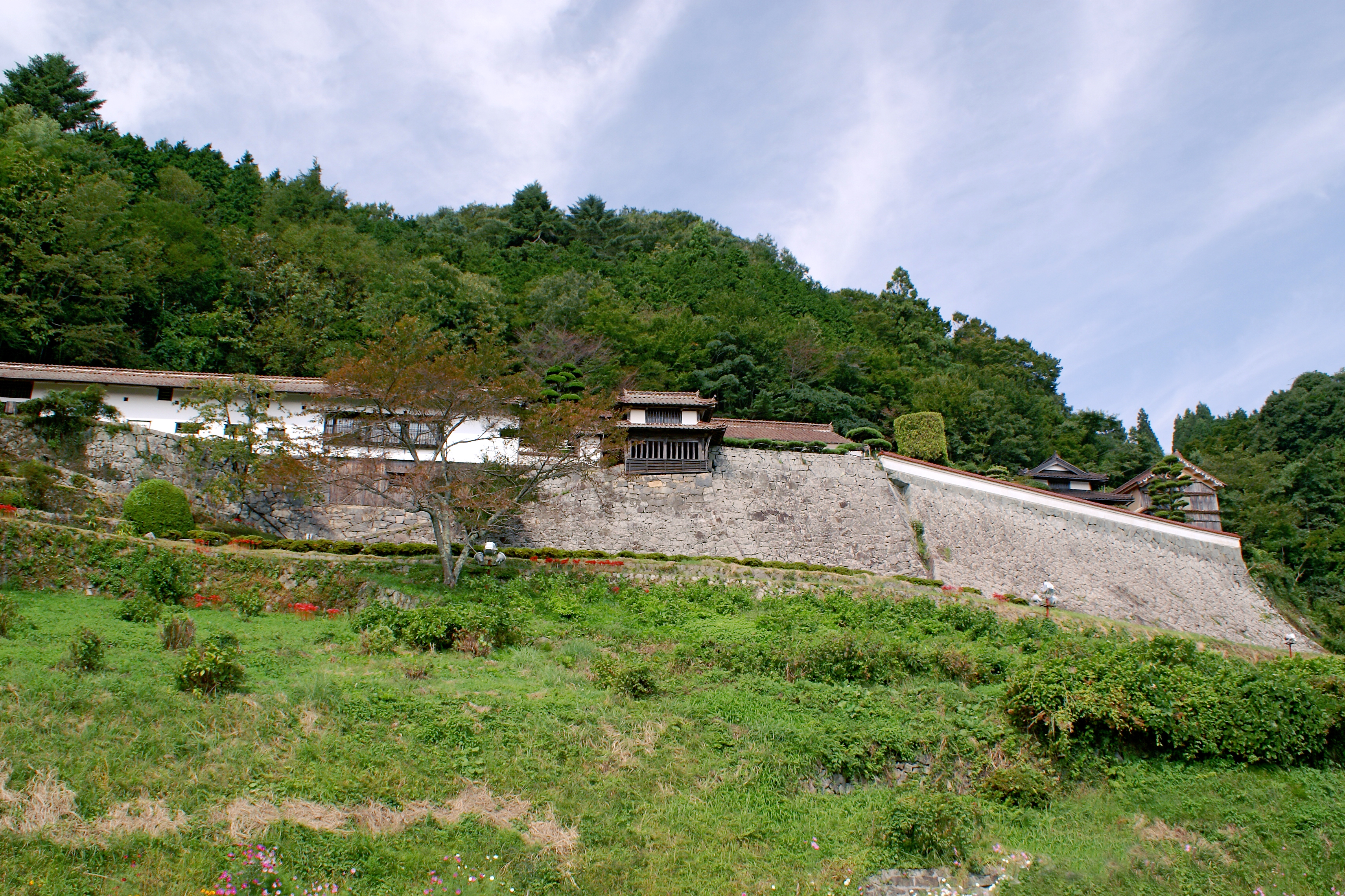 Hirokane house in Fukiya, Takahashi, Okayama prefecture, Japan